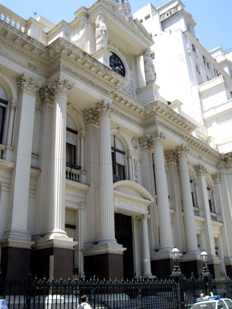 Headquarters of the Argentine Central Bank, an Italian Renaissance-inspired building designed in 1872 by architects Henry Hunt and Hans Schroeder, and completed in 1876.